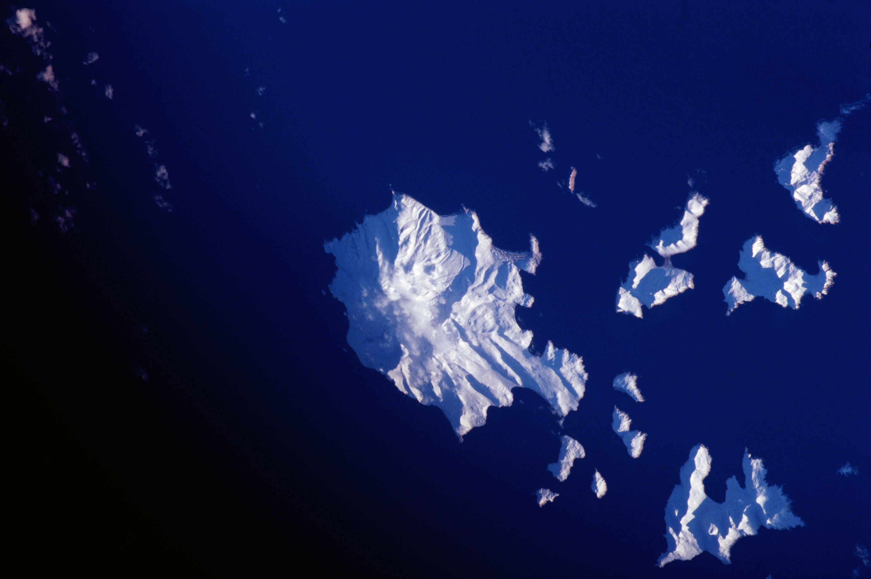 Aleutian Islands/Great Sitkin Island